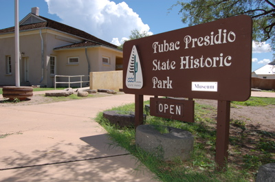 Entrance to Tubac Presidio State Historic Park